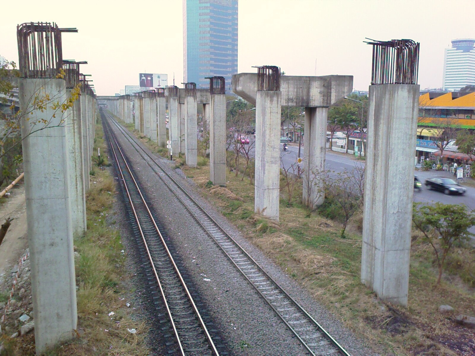 Pillars of the failed Hopewell (Bangkok Elevated Road and Train System) project, near Ngam Wong Wan Intersection